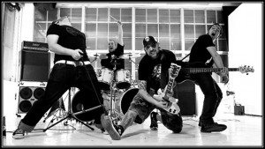 Press picture of the band Pilgrimz taken in 2008